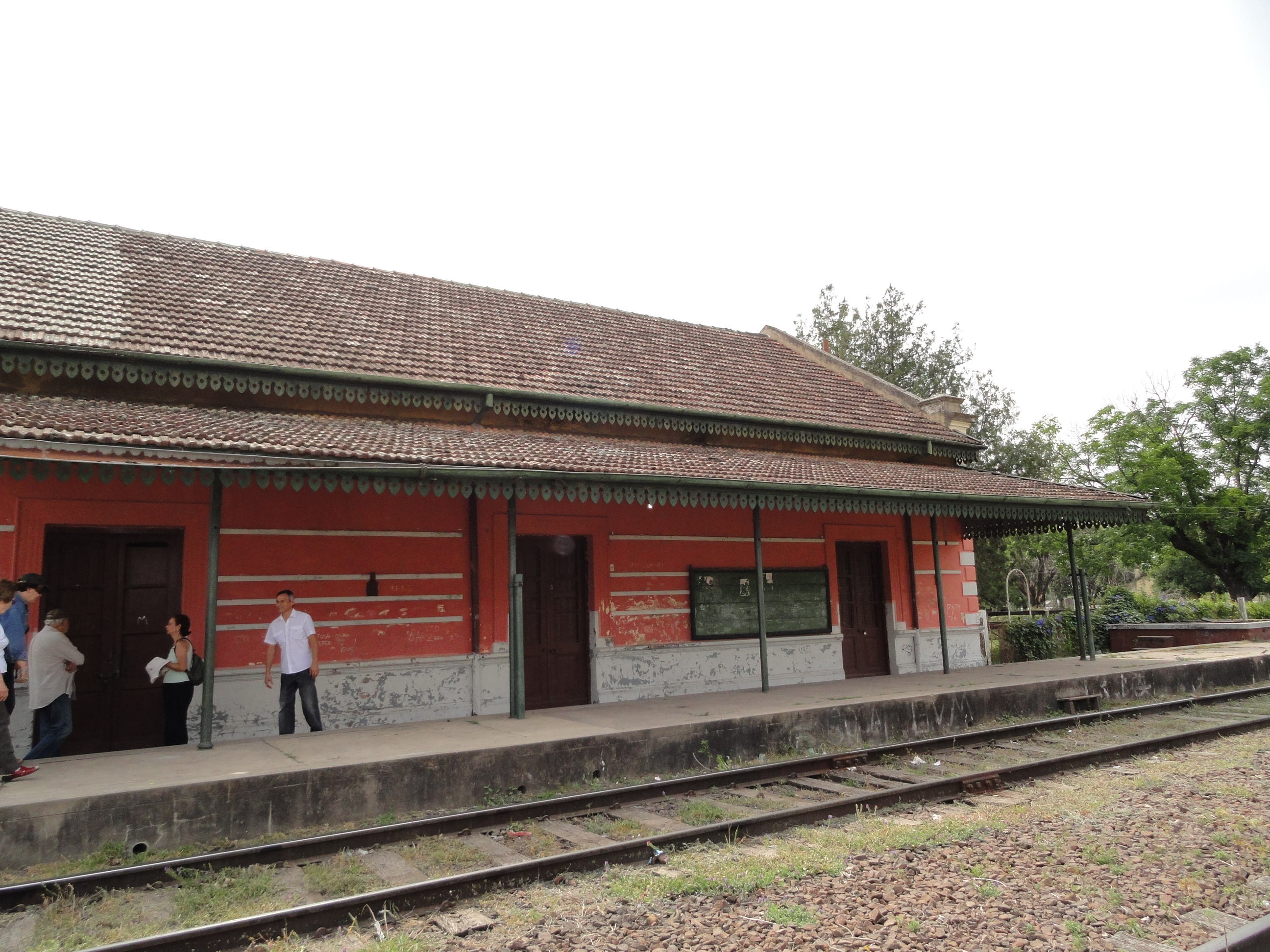 The Villa Dominguez railway station called: Gobernator Dominguez